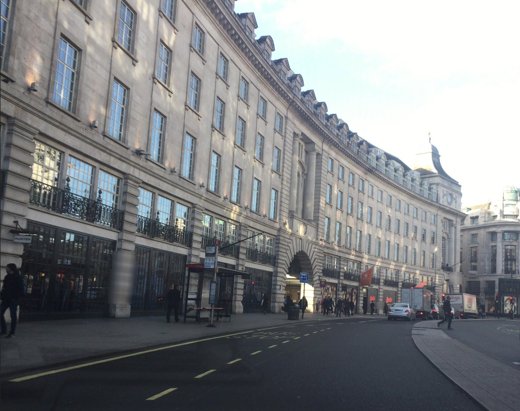 View of 93-97 Regent Street, London, 17 January 2018 (left of archway); Virgo street junction in the rear right.